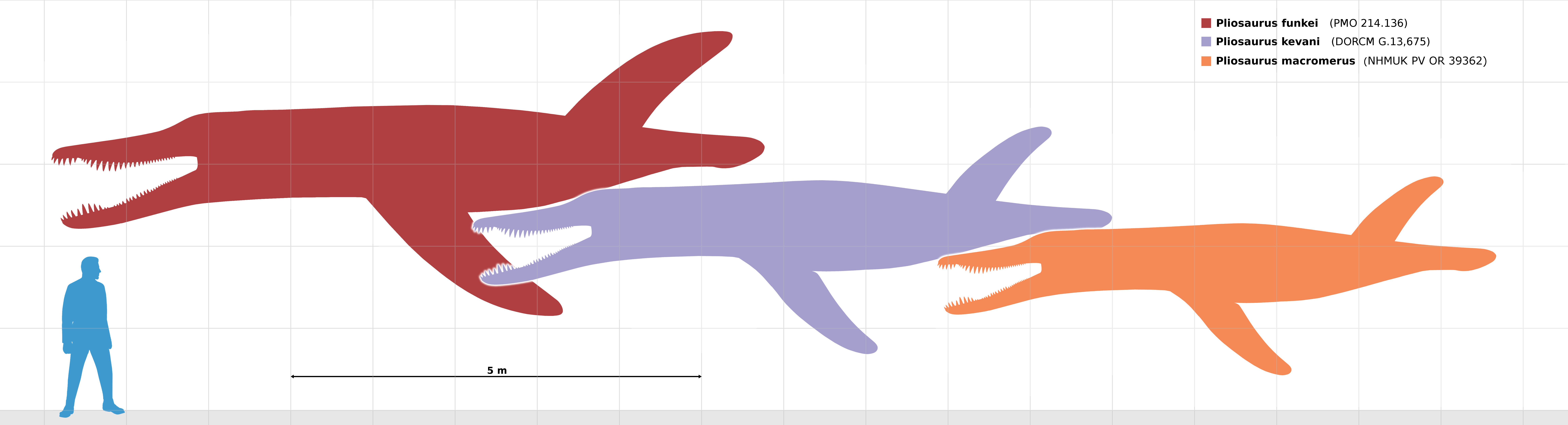 Pliosaurus funkei size obtained from vertebral measurements provided by description (Knutsen 2012): (Vertebral count obtained from Páramo et al 2016 (Stenorhynchosaurus munozi description, VL17052004-1, has a complete skeleton missing only the tail) and Kronosaurus (info from the supplementary materials of Knutsen 2012) and for the caudals, Peloneustes from vertebral count provided by Ketchum (2010)) Pliosaurus kevani proportions based on Pliosaurus cf. kevani (aka "Stretosaurus macromerus") Pliosaurus macromerus size based on NHMUK PV OR 39362, the proposed neotype. Proportions (vertebrate measurements) based on Pliosaurus brachyspondylus (Tarlo 1959), and flipper based on P.brachydeirus flipper (photos obtained from NHMUK collection database). Finally, flipper:pelvic/pubic girdle ratio based on “Stretosaurus macromerus” (Tarlo 1959). Tooth count based on proposed neotype (Benson 2013 + Knutsen 2012) NHMUK PV OR 39362.